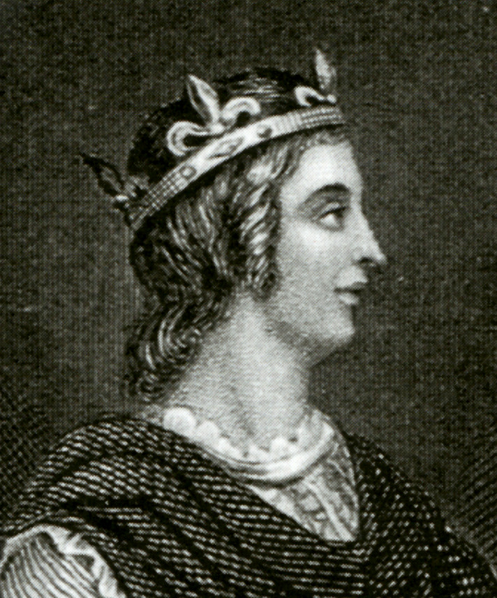 King Edwy (or Eadwig), detail of engraving after unknown artist, late 18th-early 19th century. National Portrait Gallery: D9370&eDate=&lDate= NPG NPG D9370 While Commons policy accepts the use of this media, one or more third parties have made copyright claims against Wikimedia Commons in relation to the work from which this is sourced or a purely mechanical reproduction thereof. This may be due to recognition of the "sweat of the brow" doctrine, allowing works to be eligible for protection through skill and labour, and not purely by originality as is the case in the United States (where this website is hosted). These claims may or may not be valid in all jurisdictions. As such, use of this image in the jurisdiction of the claimant or other countries may be regarded as copyright infringement. Please see Commons:When to use the PD-Art tag for more information. See User:Dcoetzee/NPG legal threat for original threat and National Portrait Gallery and Wikimedia Foundation copyright dispute for more information. This tag does not indicate the copyright status of the attached work. A normal copyright tag is still required. See Commons:Licensing for more information.